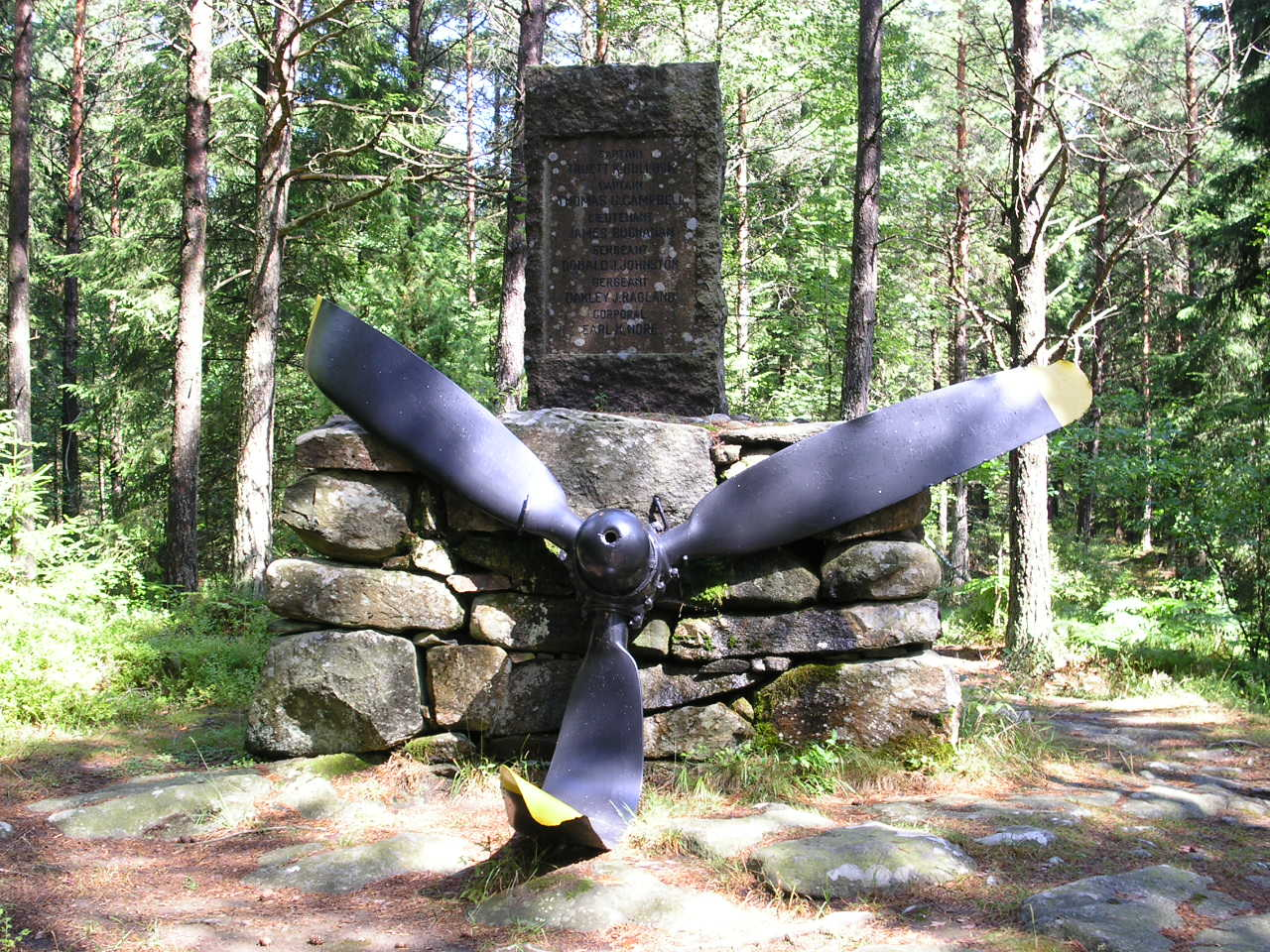 Monument in the memory of a crashed american C-87 transport-aircraft 1944, in the woods outside Alingsås, Sweden.